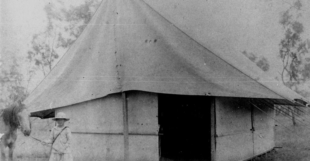 Biddeston State School tent, Queensland, 1919 Child holding a horse in front of the Biddeston State School tent, opened 14 October 1919.